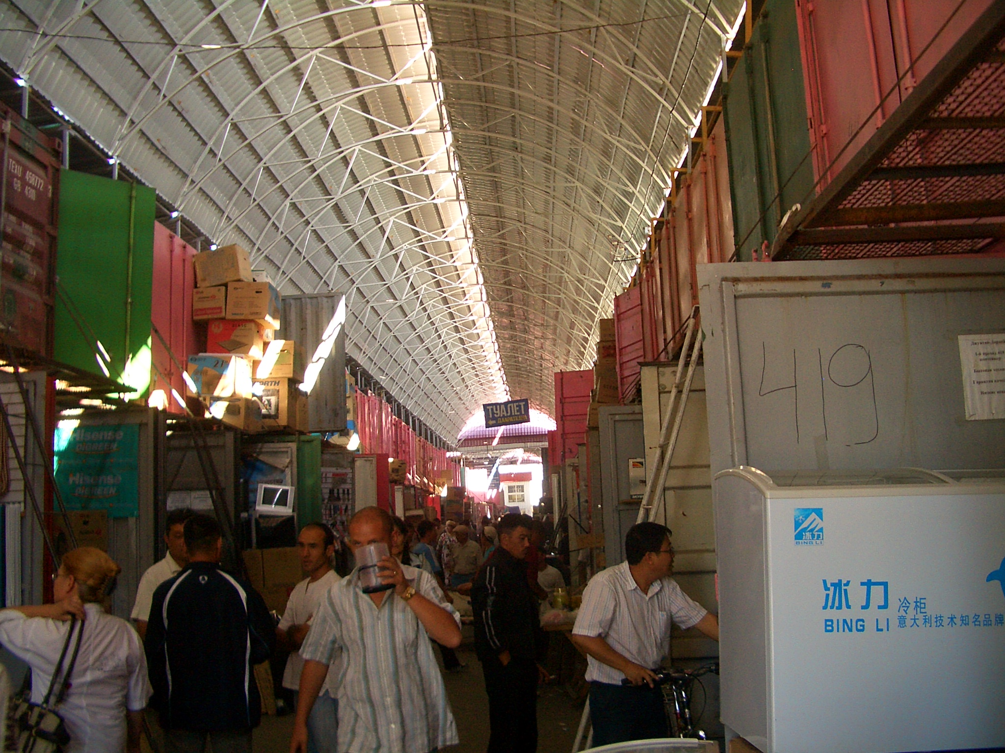 Electronics stalls in Dordoy Bazaar, Bishkek.